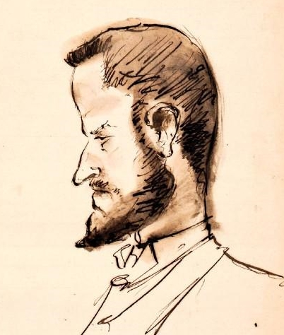 Italian conductor Leopoldo Mugnone (1858-1941). Milano, 1896.